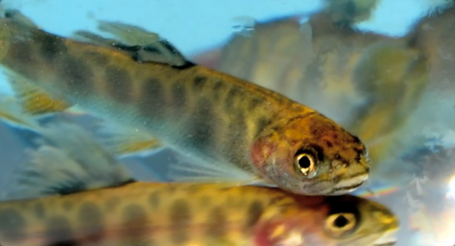 Young fish of Salmo trutta lacustris at Neualbeck #10, municipality Albeck, district Feldkirchen, Carinthia / Austria / EU